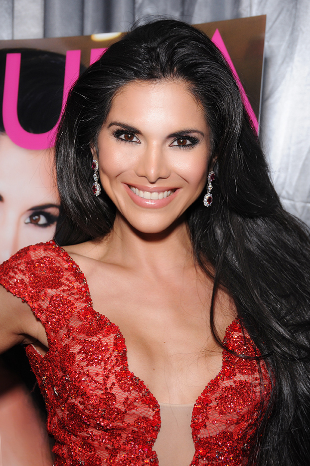 Joyce Giraud, Beverly Hills, California on March 4, 2014 - Photo by Glenn Francis of